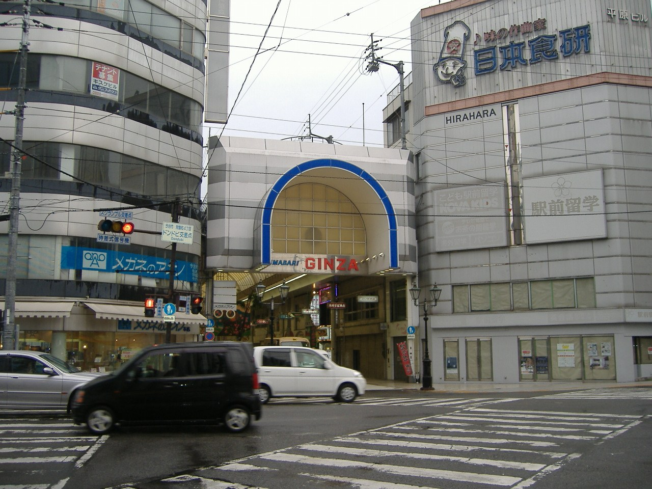 DONDOBI Intersections (Imabari, Japan)